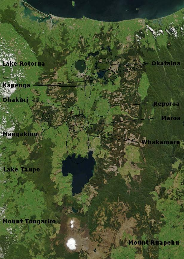 Bay of Plenty, North Island, New Zealand, from the Bay of Plenty coast to Mounts Tongariro, Ngauruhoe, and Ruapehu (at bottom of picture). Also shows Lake Taupo and the Rotorua Lakes. This scene was acquired by the Moderate Resolution Imaging Spectroradiometer (MODIS), flying aboard NASA’s Terra satellite, on October 23, 2002